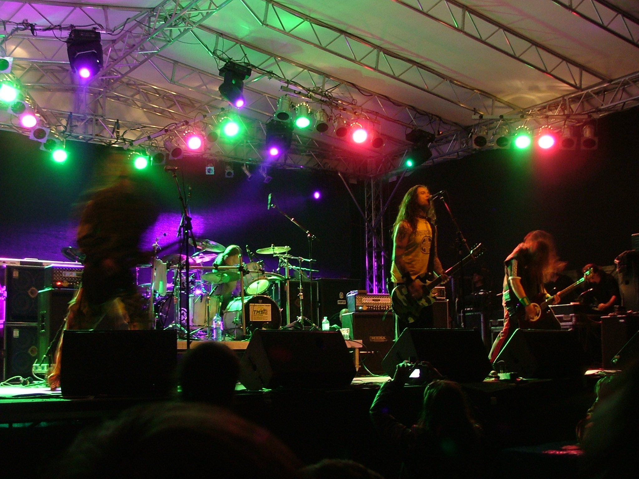 Hungarian thrash metal band Ektomorf at 'Rock the Lake' in Finkenstein am Faaker See